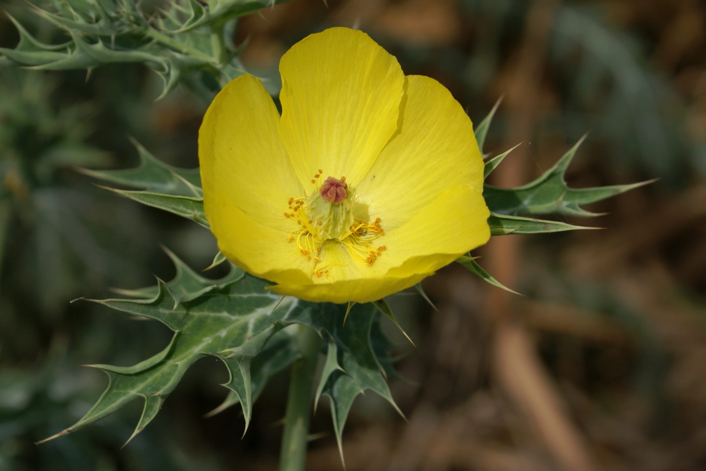 Flower of Mexican Poppy (Argemone mexicana), an introduced weed on Réunion island